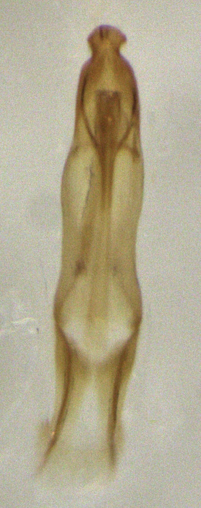 aedeagus of Omonadus floralis